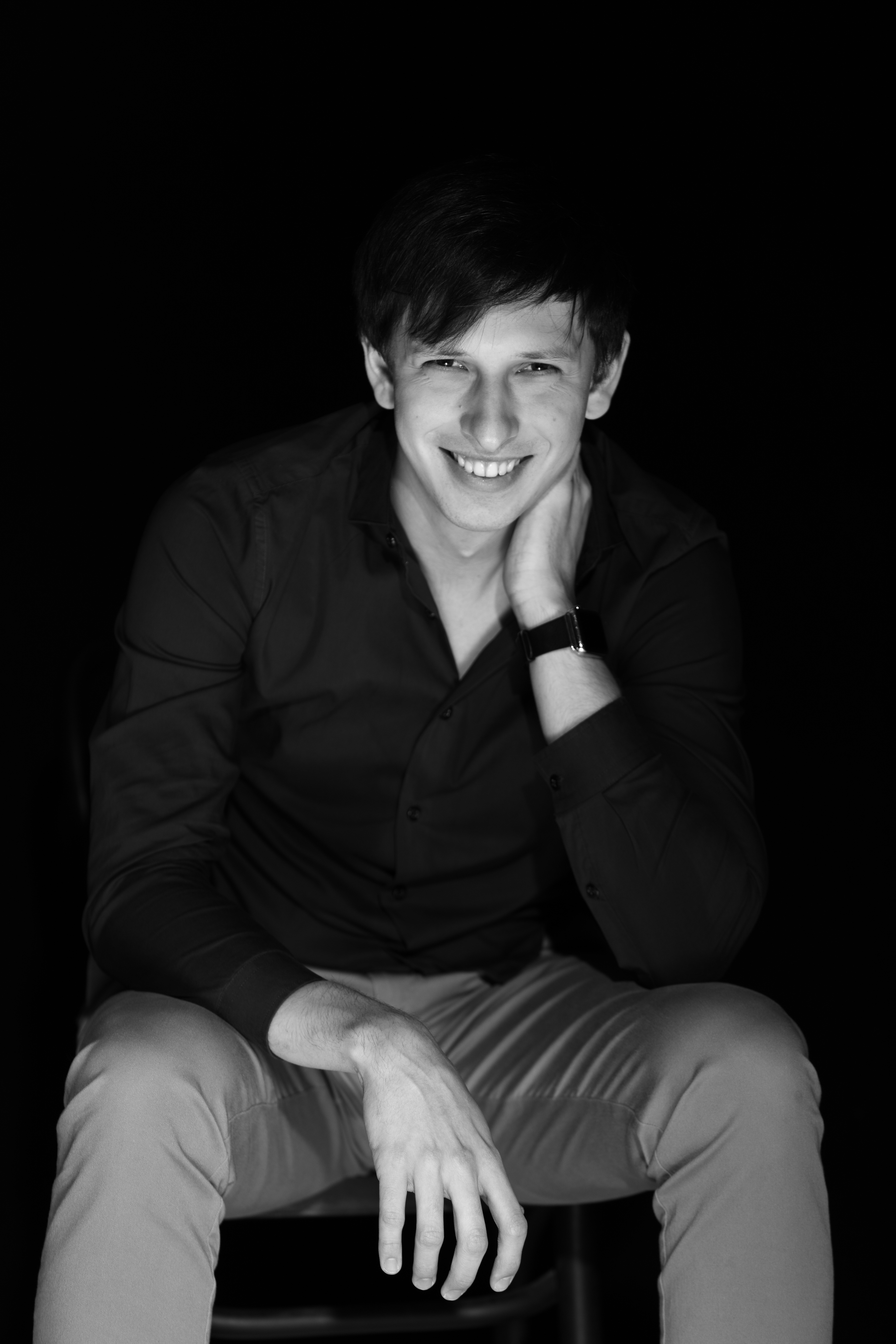 Łukasz Krupiński, Polish pianist